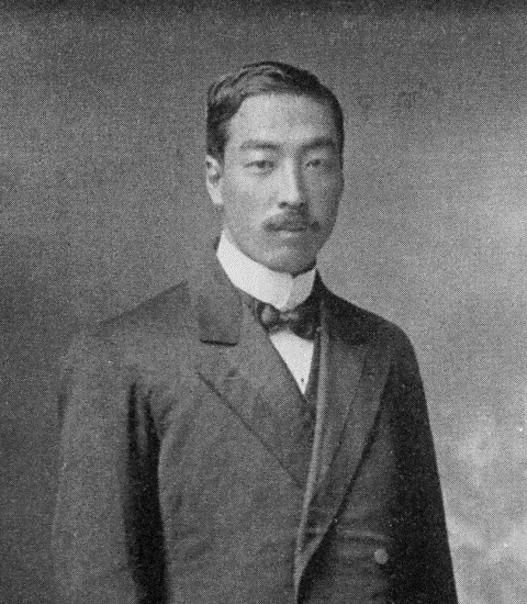 Keiichi Ogasawara